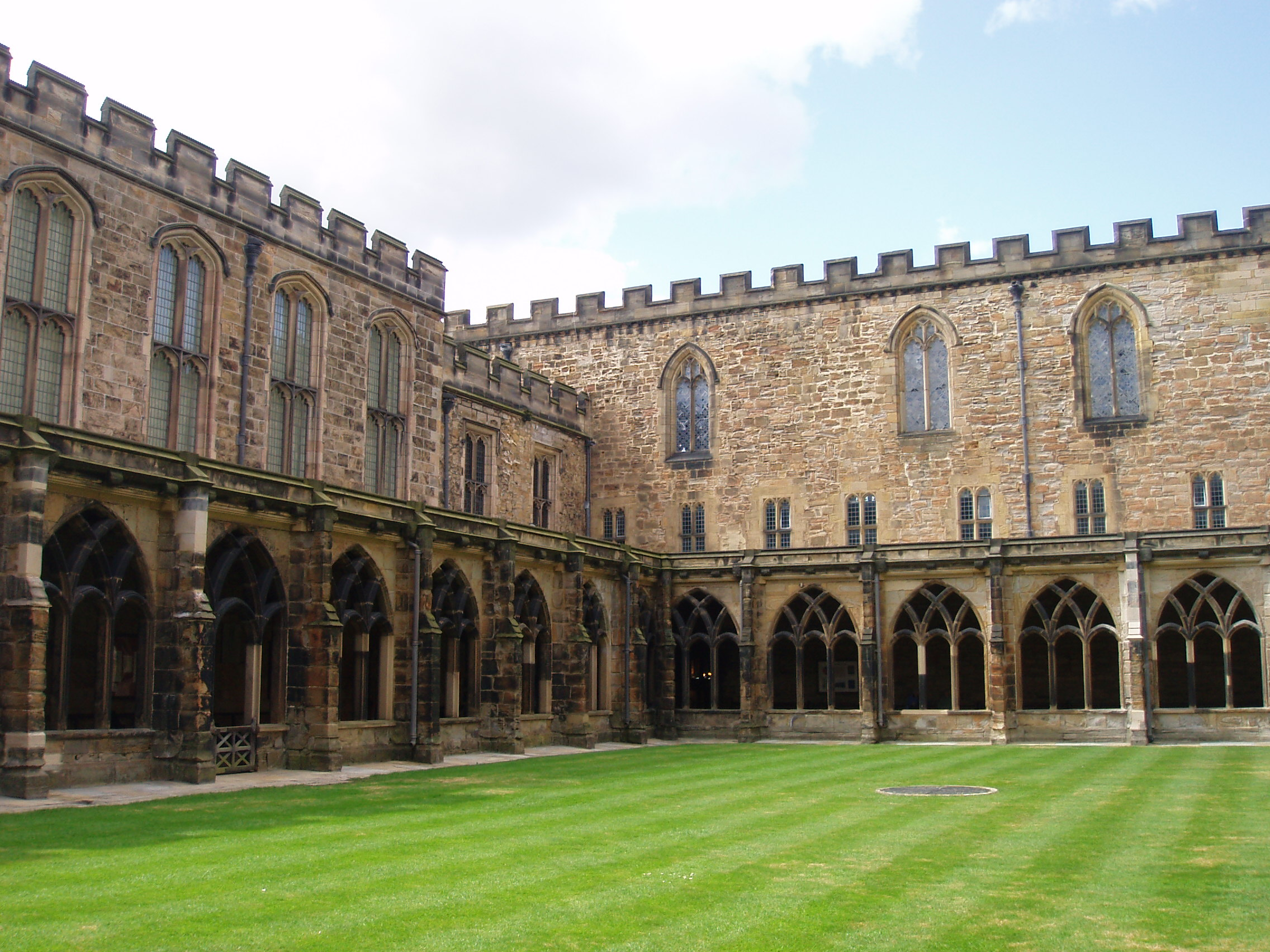 A view of Durham Cathedral cloisters. Precise identification of structures not yet done.